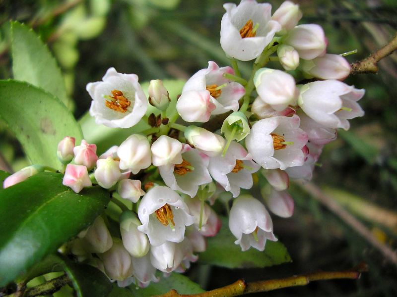 These were taken to show how the huckleberry flowers are pollinated. These flowers are only 3 to 5 millimeters long or short depending on your point of view. They are very small. But they look so delicate and are pretty. They are native to Washington State and grow in the wild.